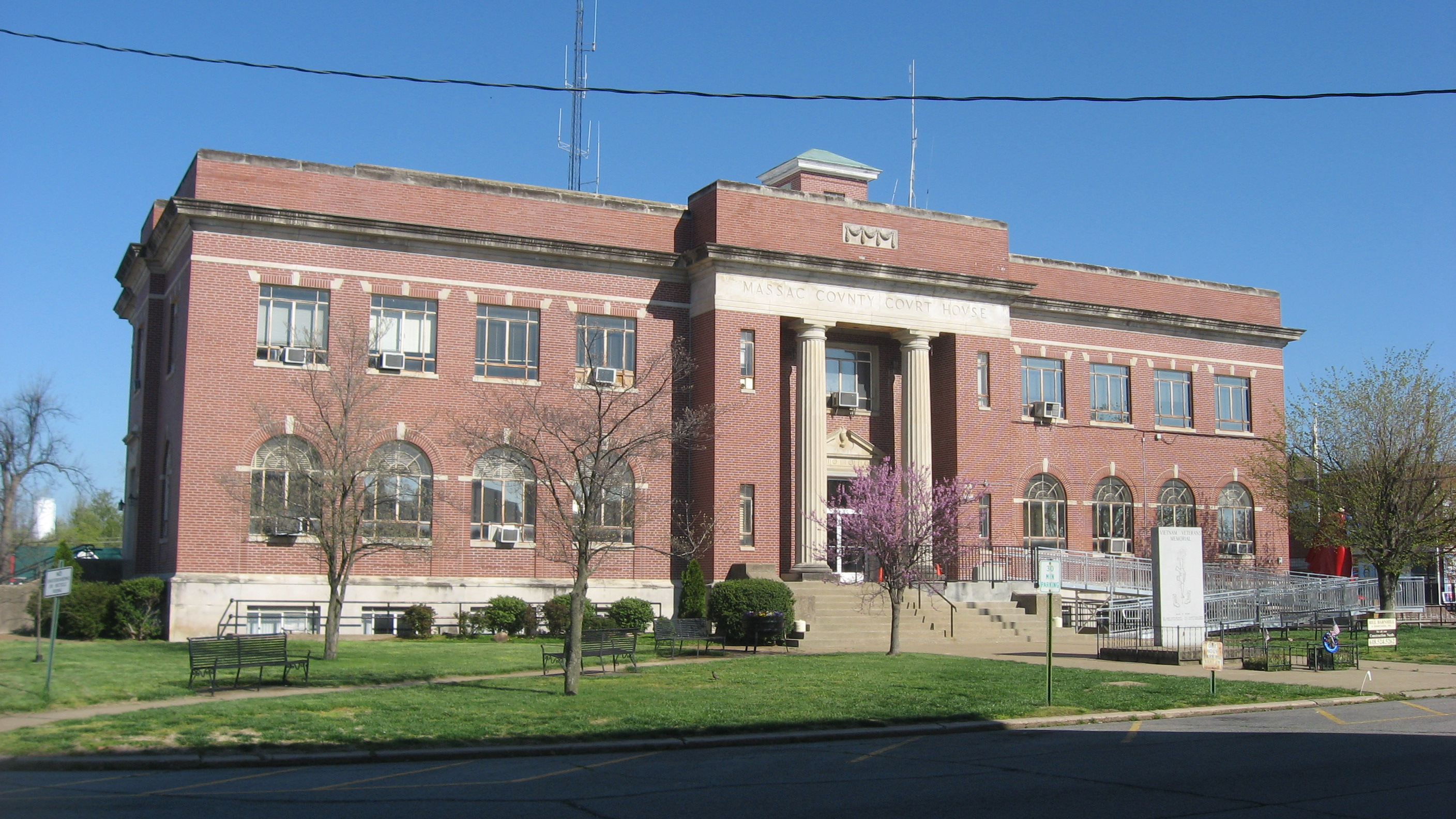 Front and southern end of the Massac County Courthouse, located on the public square in Metropolis, Illinois, United States. Built in 1942, it replaced a previous structure completed eighty years earlier.